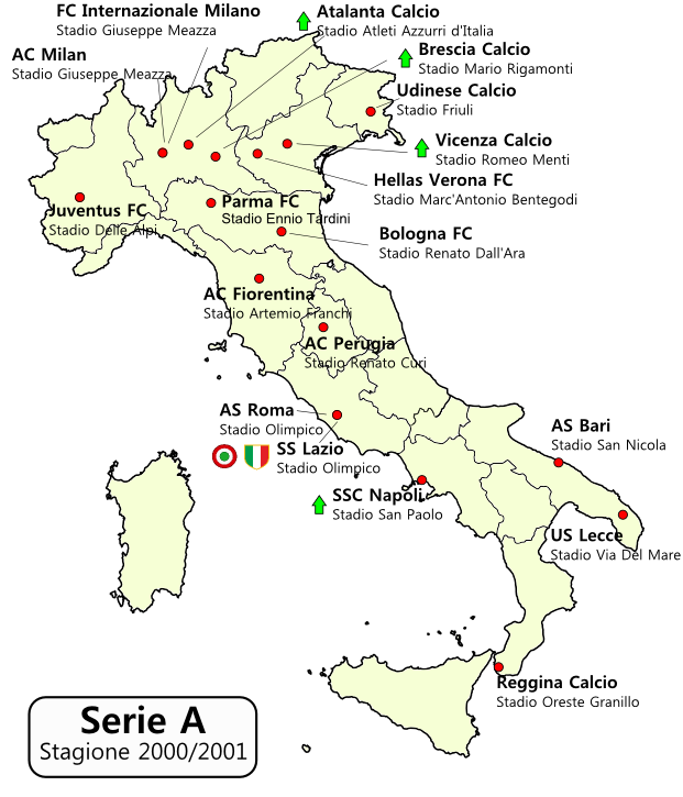 Geographical distribution of Serie A teams 2000-2001